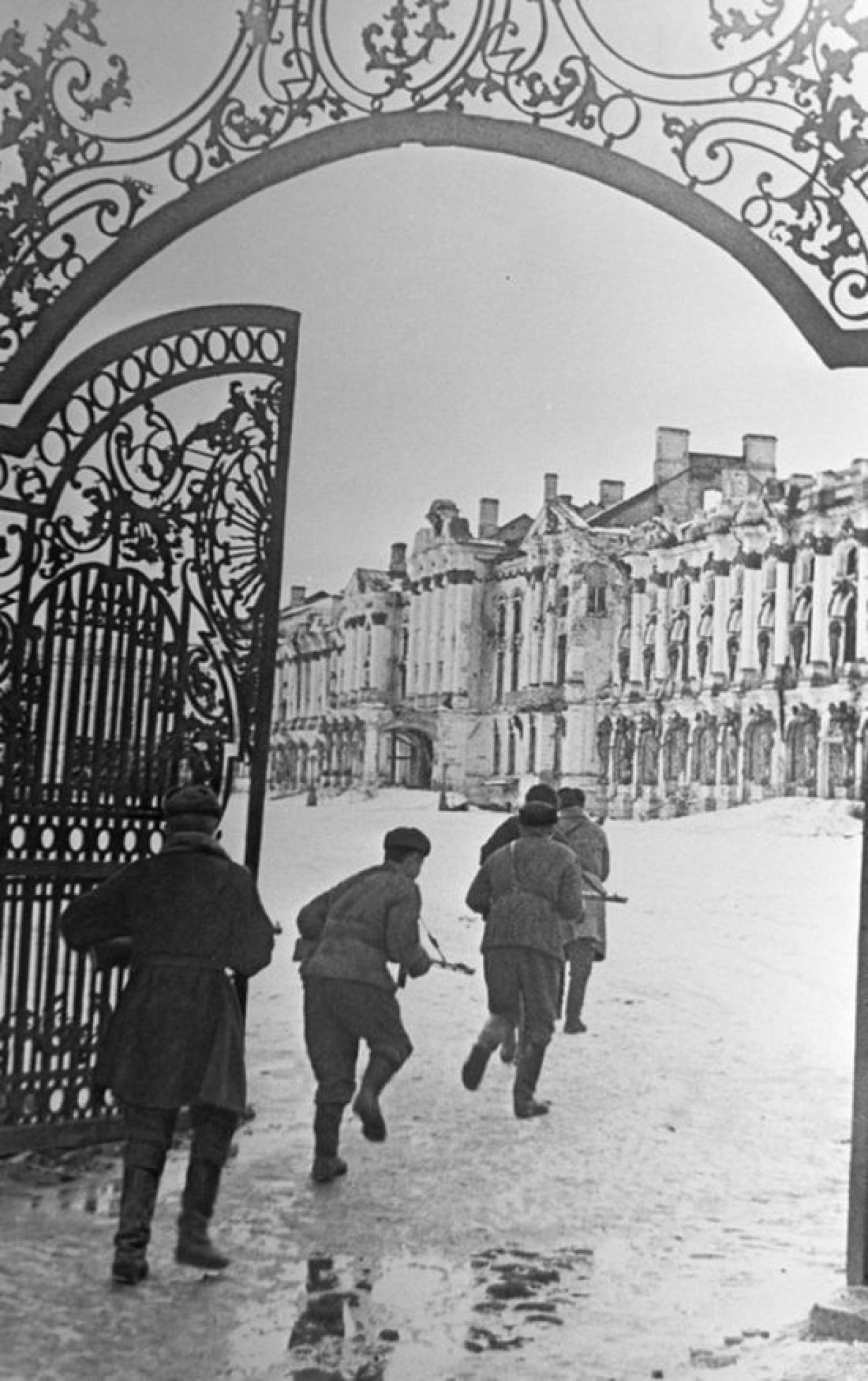 “Battles in Pushkin”. Soviet soldiers fighting in Pushkin. The breakthrough of Leningrad's siege.